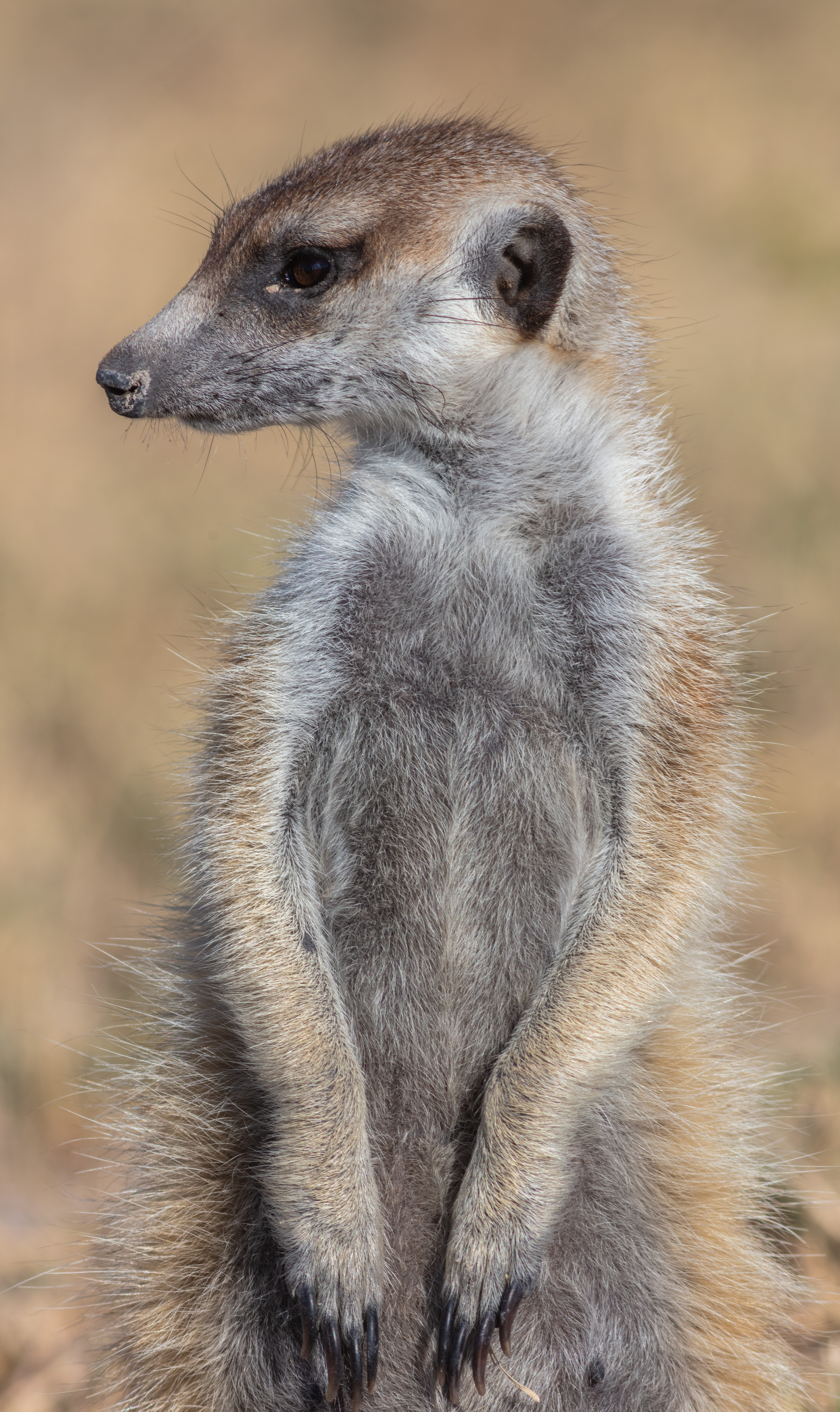 Meerkat (Suricata suricatta), Makgadikgadi Pans National Park, Botswana